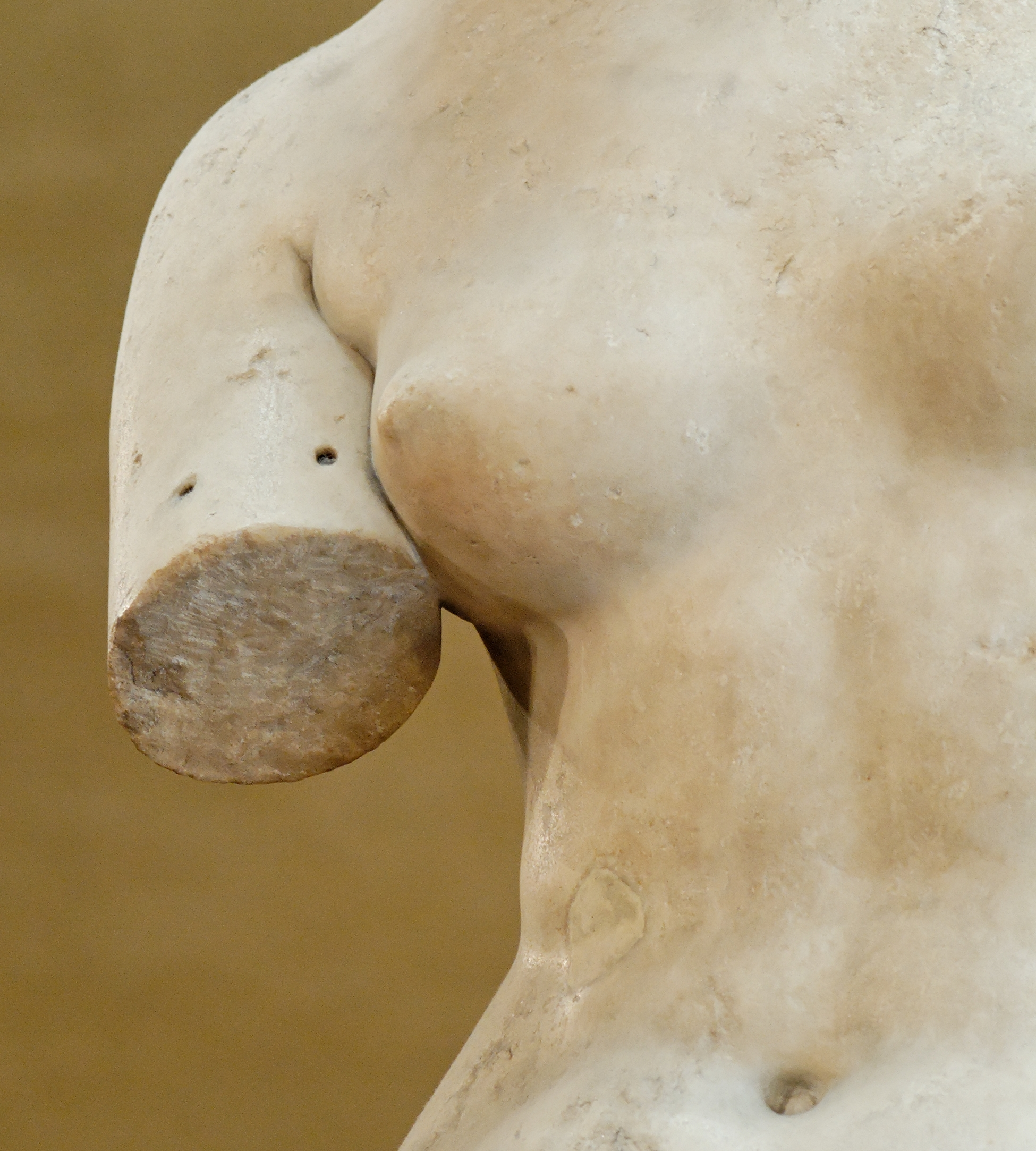 So-called “Venus de Milo” (Aphrodite from Melos), detail of the upper block: join surface of the right upper arm, with mortise; attachment holes, which probably bore a metal armlet; strut hole above the navel, now covered with plaster. Parian marble, ca. 130-100 BC? Found in Melos in 1820.